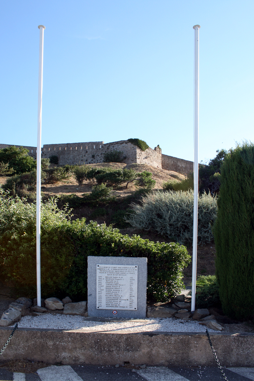 Commémoration du parachutage le 15 aout 1944 dans la baie de Saint-Tropez. Texte de la plaque : ICI A L'AUBE DU 15 AOUT 1944 A BORD D'UN DES NOMBREUX C-47, 17 PARACHUTISTES DE LA Cie B DU 509° BATAILLON ONT SAUTE DANS LES EAUX DU GOLFE E St TROPEZ POUR LIBERER LA FRANCE AUCUN NE FUT RETROUVER. CPT MILLER Ralph R/JR OH. TEC-4 BECKNER Eugene C. MINN. PVT BUTLER Ira J. ILL. PFC CAMPOS Frank CAL. SGT CREVELLING Oscar F. N.Y. S-SGT DAVID Robert B. FL. T-5 DAWSON Albert T. IND. 1° SGT DORSA Anthony J. TEX. PFC FORD Jonnie C. GA. PVT GARCIA Julius N.Y. T-4 GILLMANN Marvin N. MICH. PFC LYNCH George R. N.Y. PVT PENNEBAKER Thomas W. PHIL. PVT PIPINO Alfred JR. PHIL. PFC POTTER Leon V. MO. T-5 REID George W. N.Y. SGT SUTHERLAND William A. S.C.